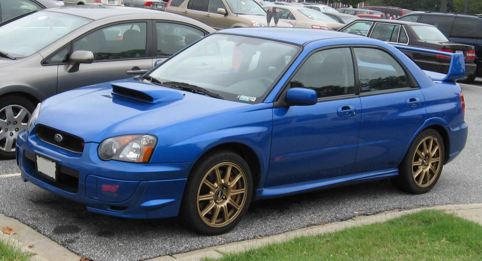 2004-2005 Subaru WRX STi photographed in USA.